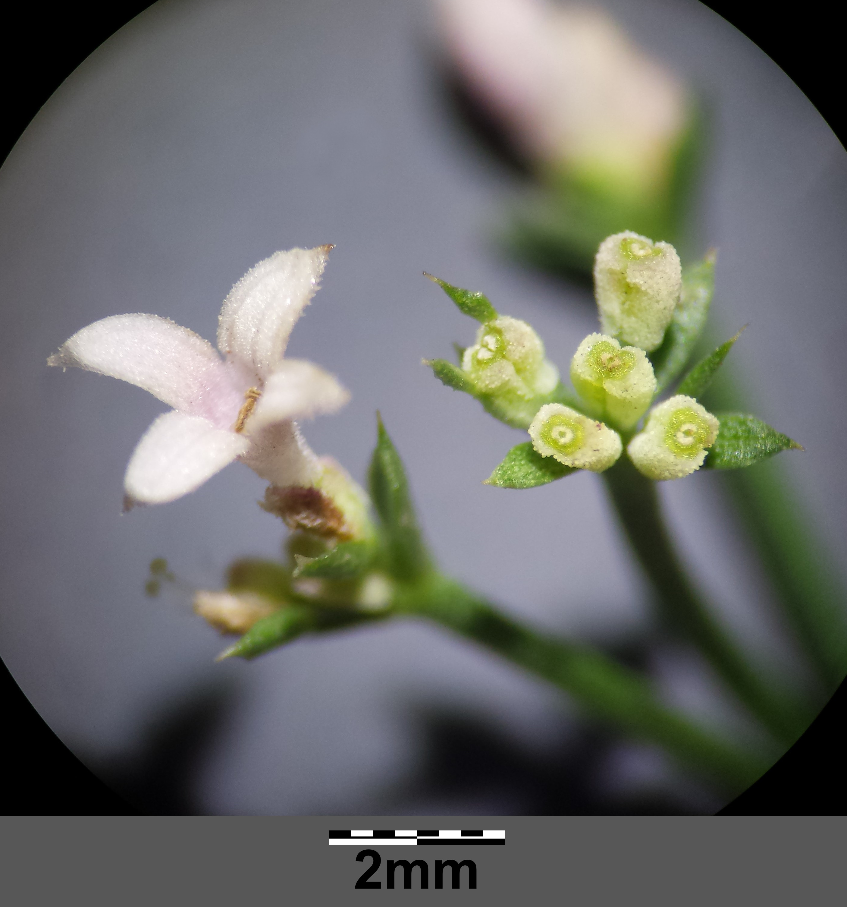 Inflorescence/Infructescence Taxonym: Asperula cynanchica (ss Fischer et al. EfÖLS 2008 ISBN 978-3-85474-187-9) Location: Kleiner Wagram near Gerasdorf, district Wien-Umgebung, Lower Austria - ca. 170 m a.s.l. Habitat: semi dry grassland